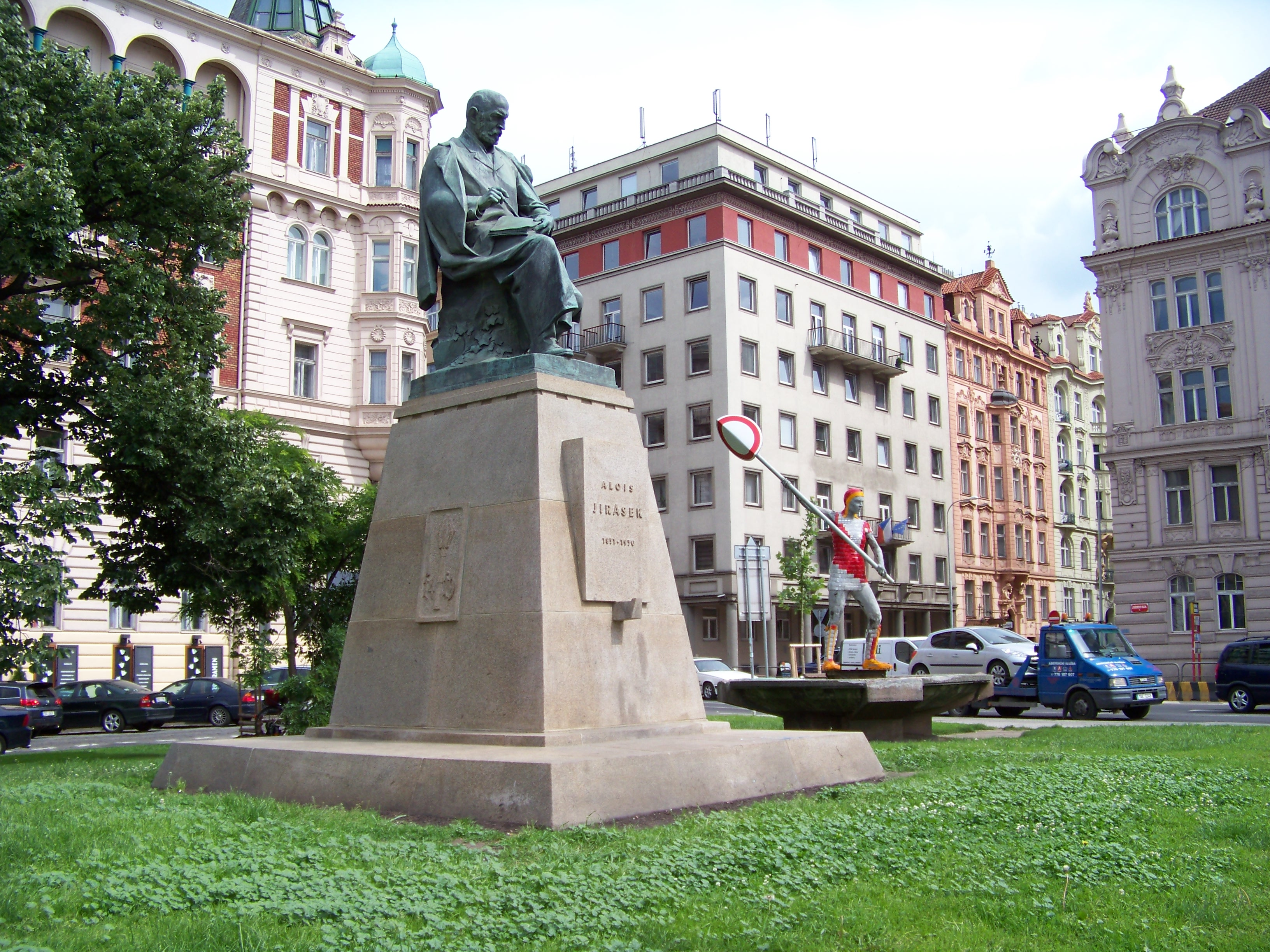 New Town, Prague, the Czech Republic. Masarykovo nábřeží embankment, tram stop Jiráskovo náměstí, a reconstruction.